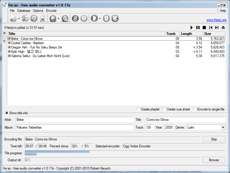 fre:ac 1.0.17 running on Windows 7